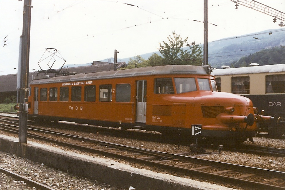 OeBB RBe 2/4 202, ex SBB RBe 2/4 1007